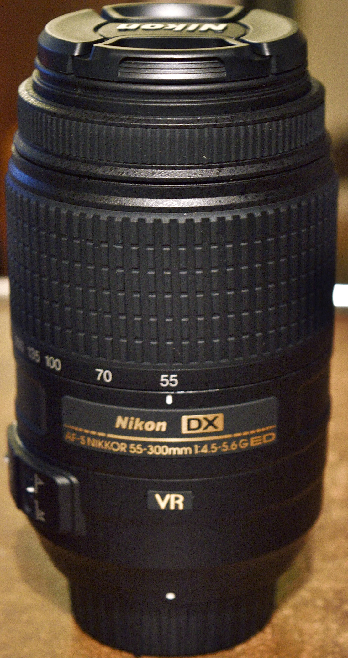 Lens retracted at it's shortest focal length.